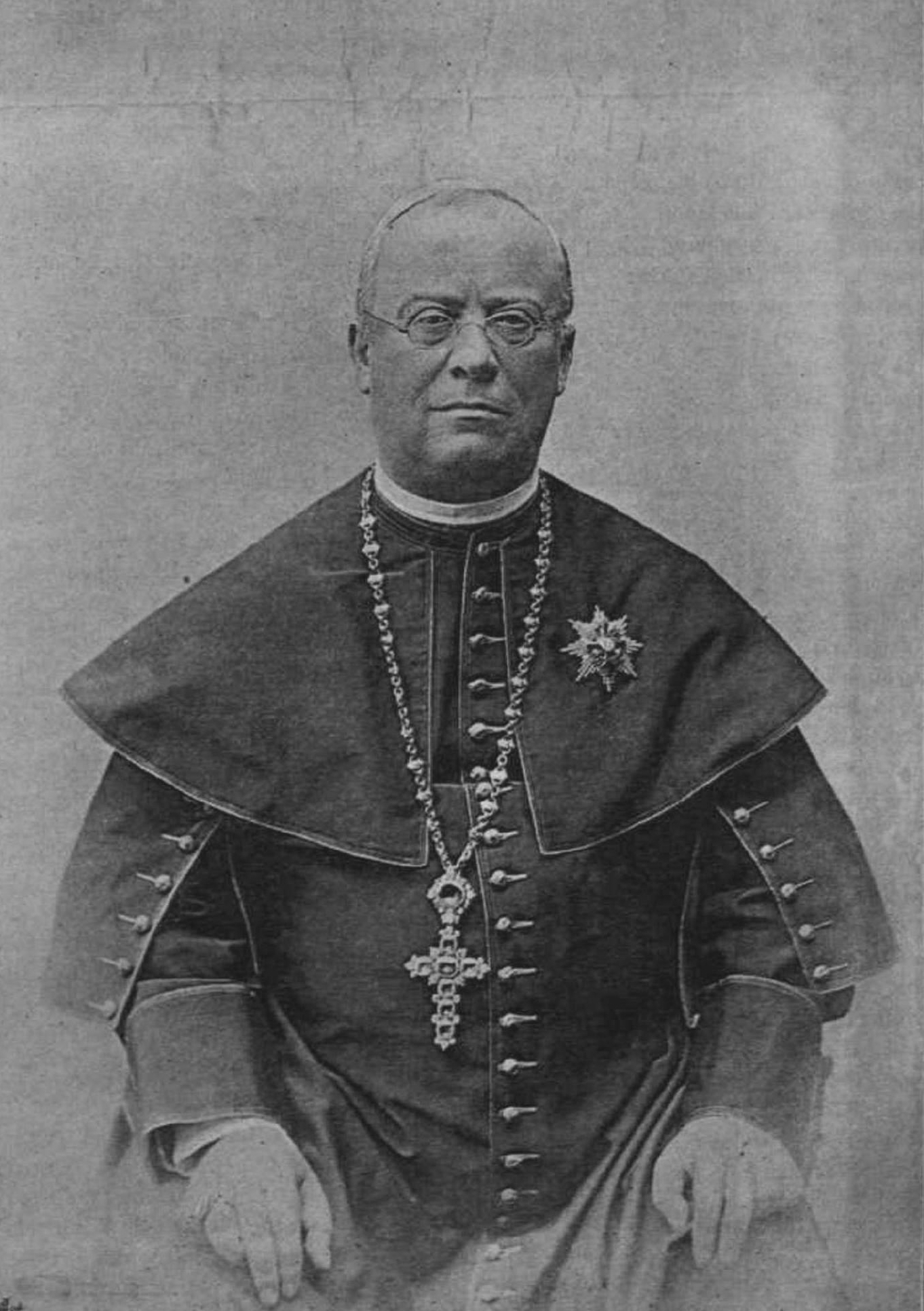 Nándor Dulánszky